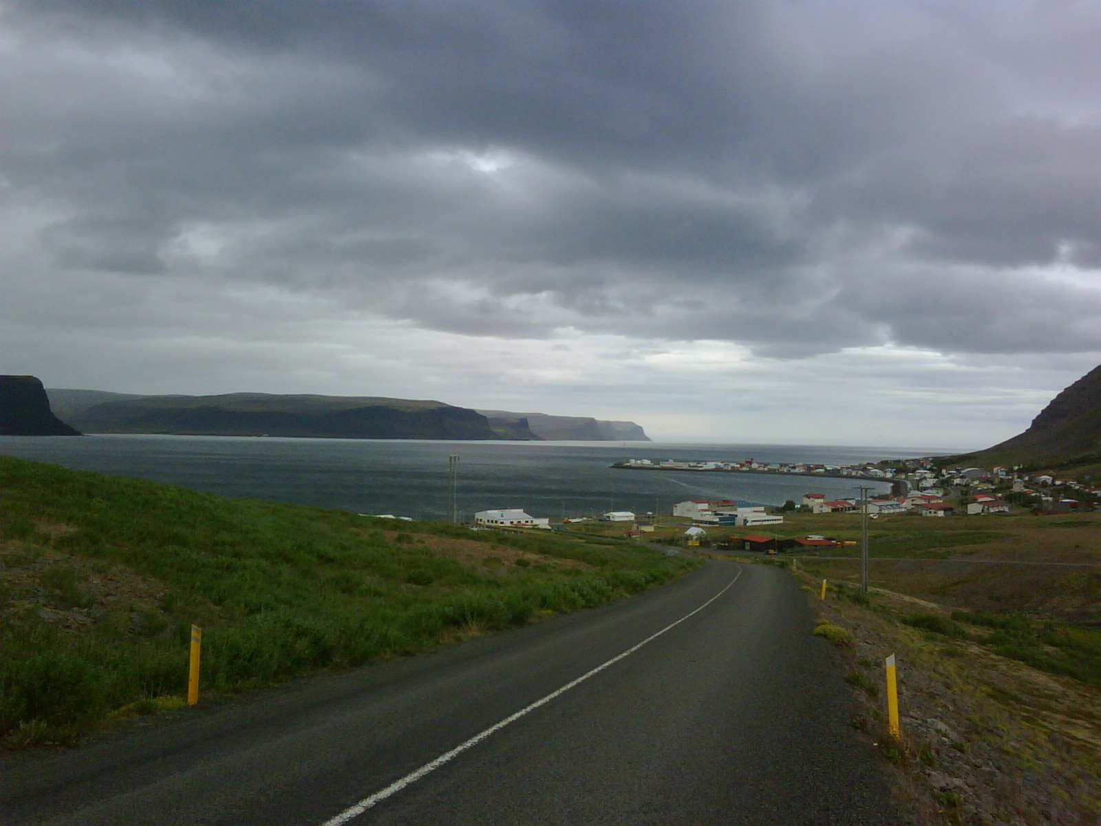 Patreksfjörður